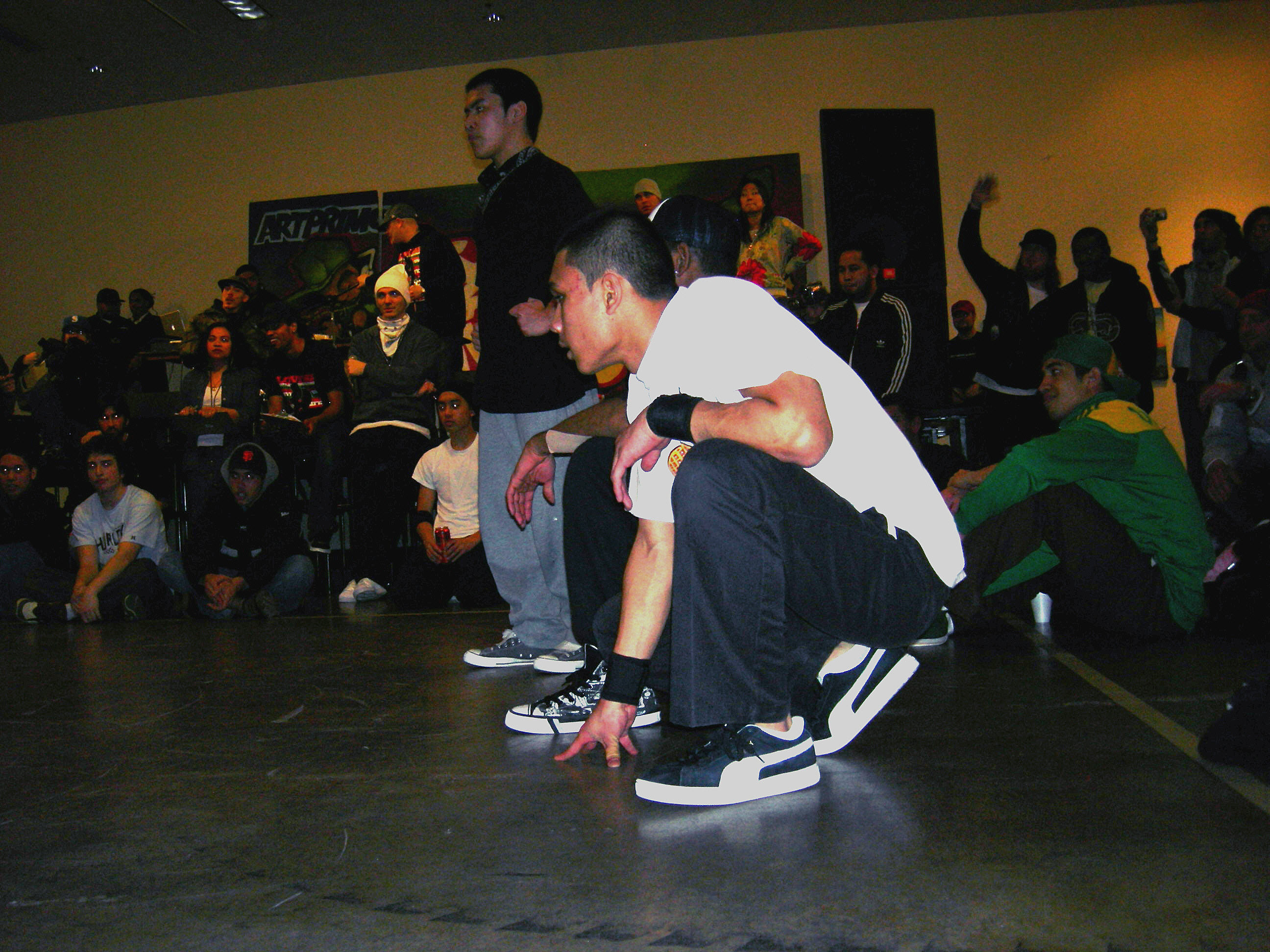 Dance competition. Third Anniversary of Zulu Nation Seattle Celebration of Hip Hop Culture, part of Festival Sundiata, a Festál event at Seattle Center, Seattle, Washington.